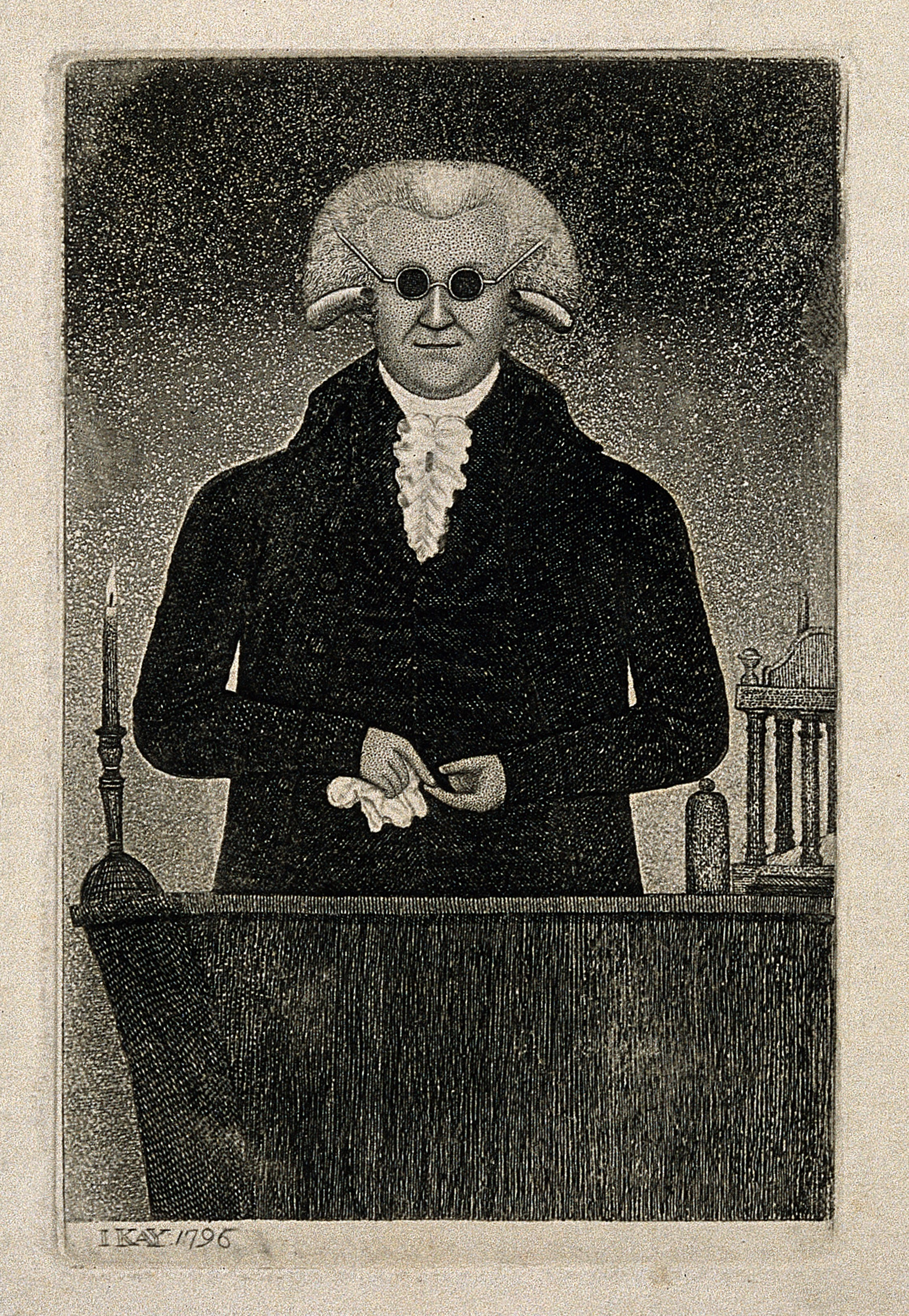 Henry Moyes. Etching by J. Kay, 1796. Iconographic Collections Keywords: portrait prints; Henry Moyes; etchings; J. Kay